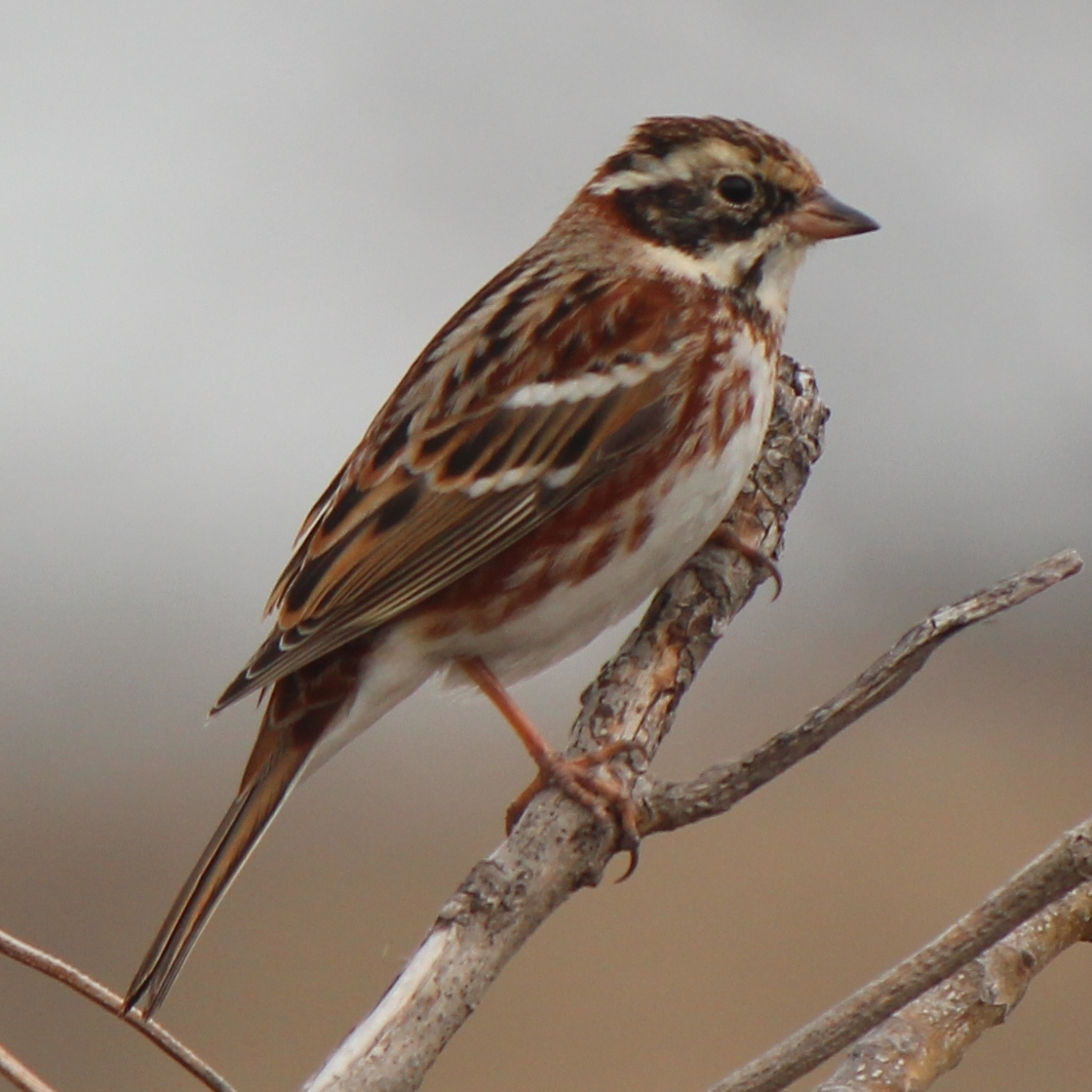 Emberiza rustica latifascia Rustic Bunting on tree